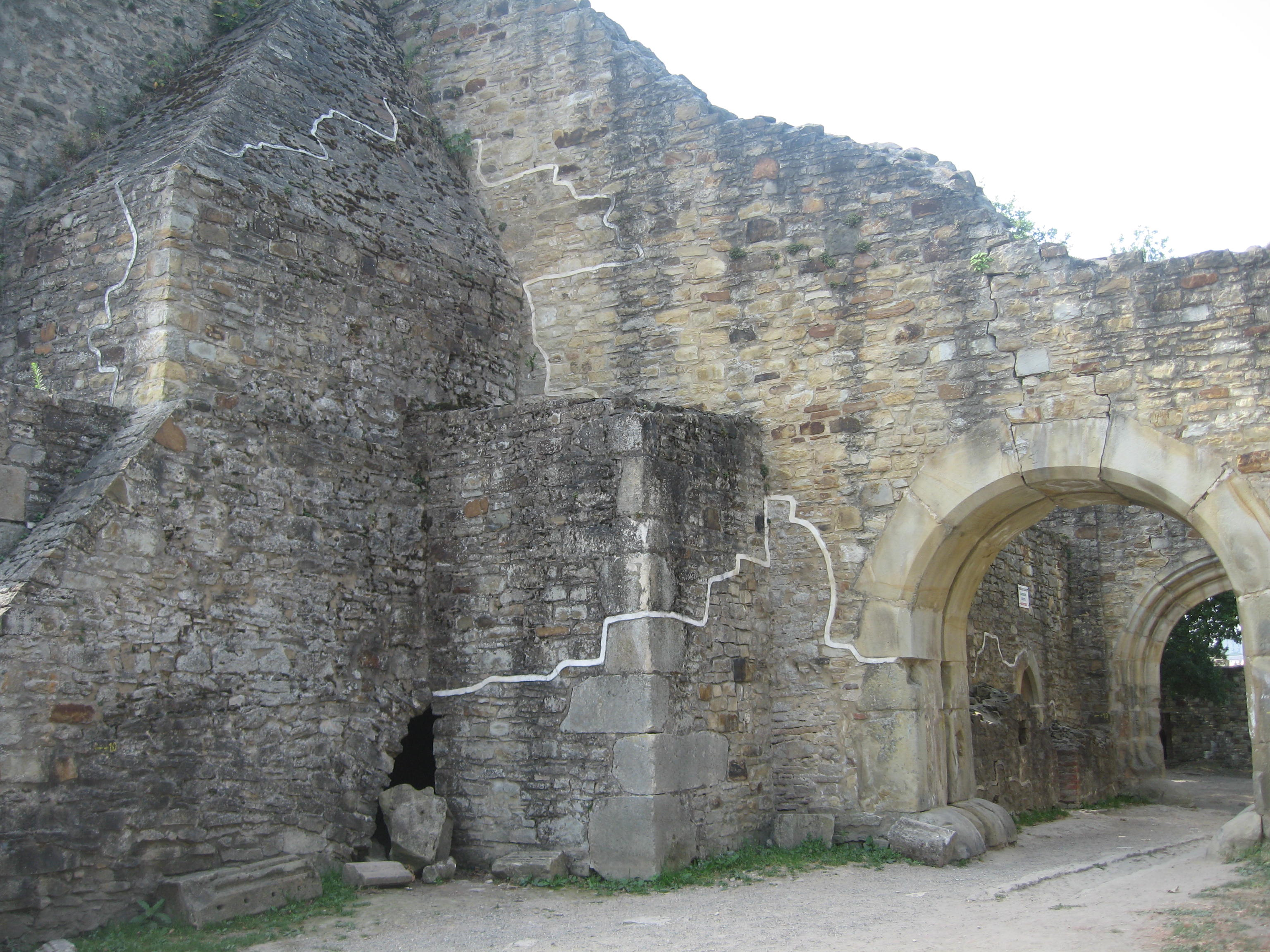 Seat Fortress of Suceava – entrance hall and gate.